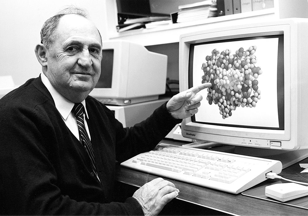 Image of Chemist Ray Lemieux